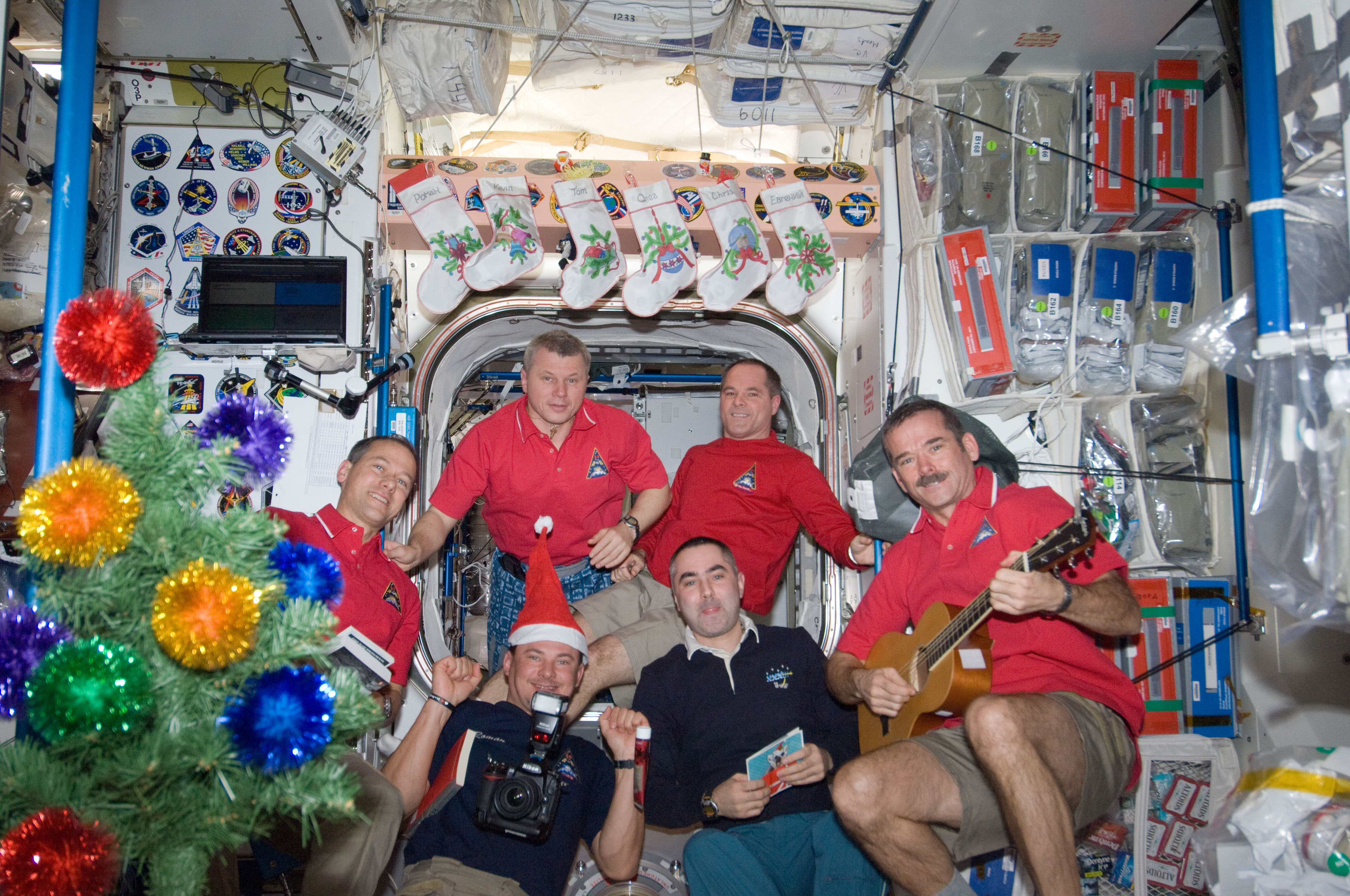 Expedition 34 crew members assemble in the Unity node of the International Space Station for a brief celebration of the Christmas holiday. Pictured clockwise (from top right) are NASA astronaut Kevin Ford, commander; Canadian Space Agency astronaut Chris Hadfield, Russian cosmonauts Evgeny Tarelkin and Roman Romanenko, NASA astronaut Tom Marshburn and Russian cosmonaut Oleg Novitskiy, all flight engineers.